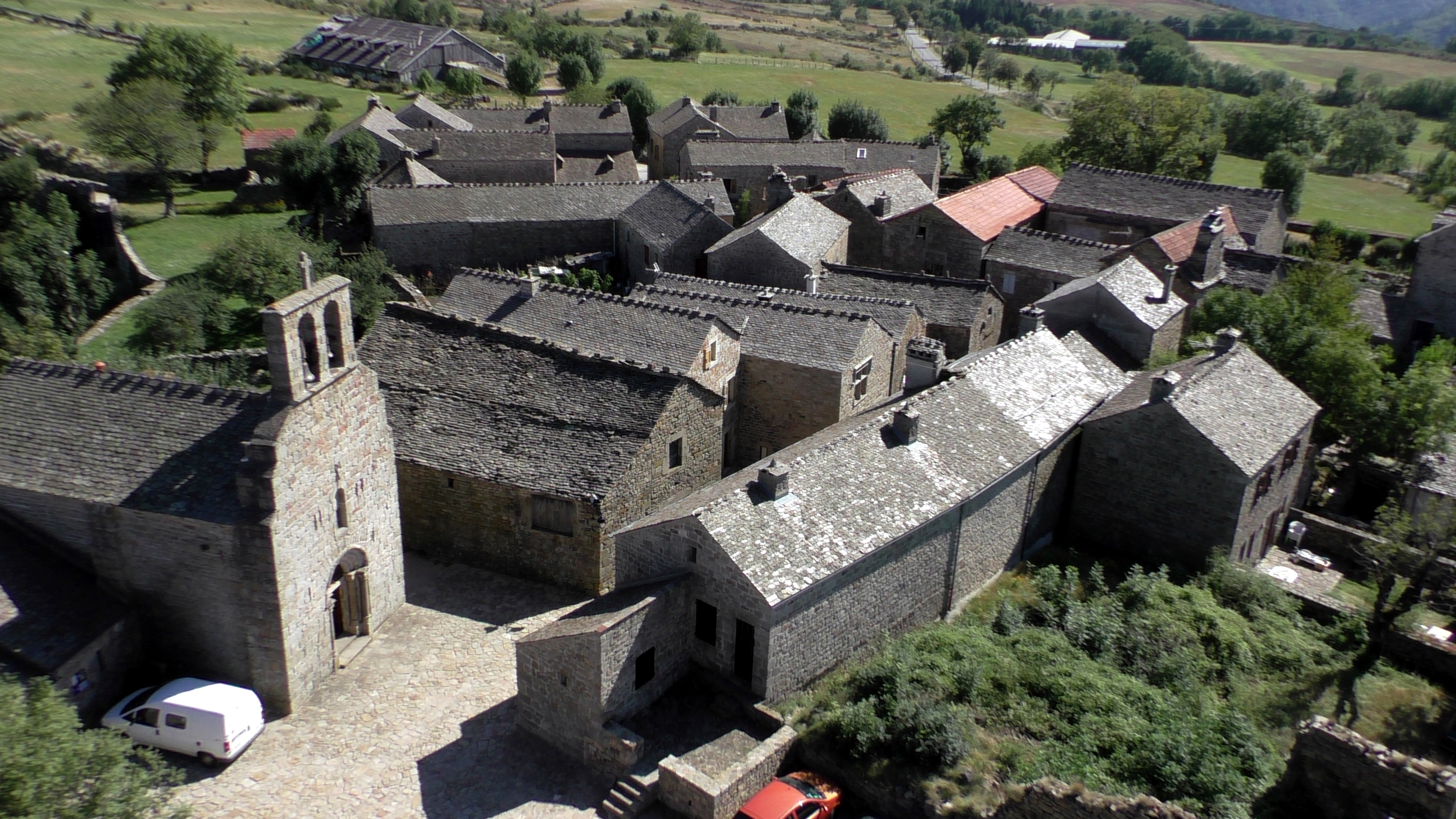 View from the top of the tower (20m) down to La Garde-Guérin (Lozère, France)